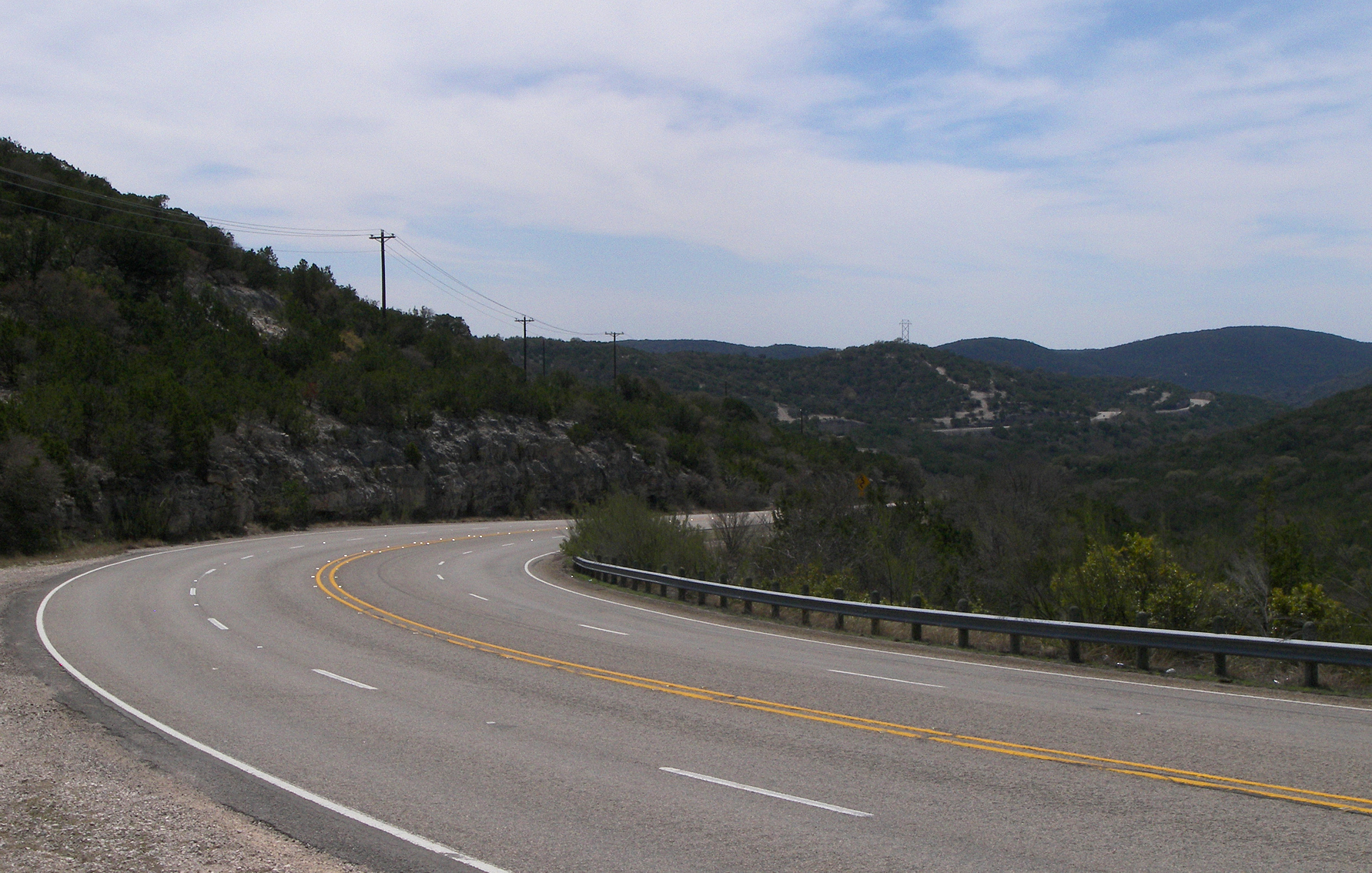 Looking south on Texas State Highway 55 winding through the Texas Hill Country.